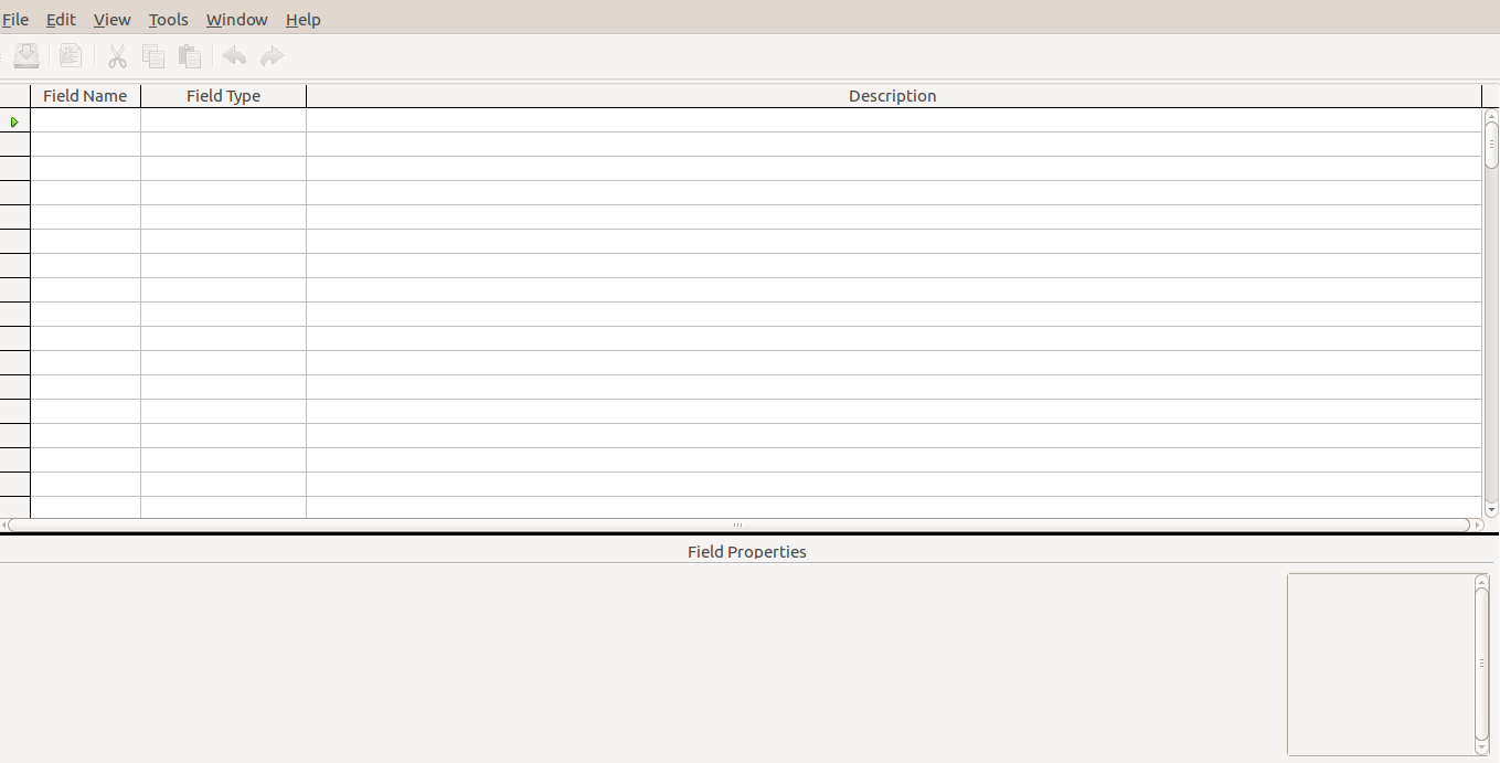 Screenshot of Table in Libreoffice Base